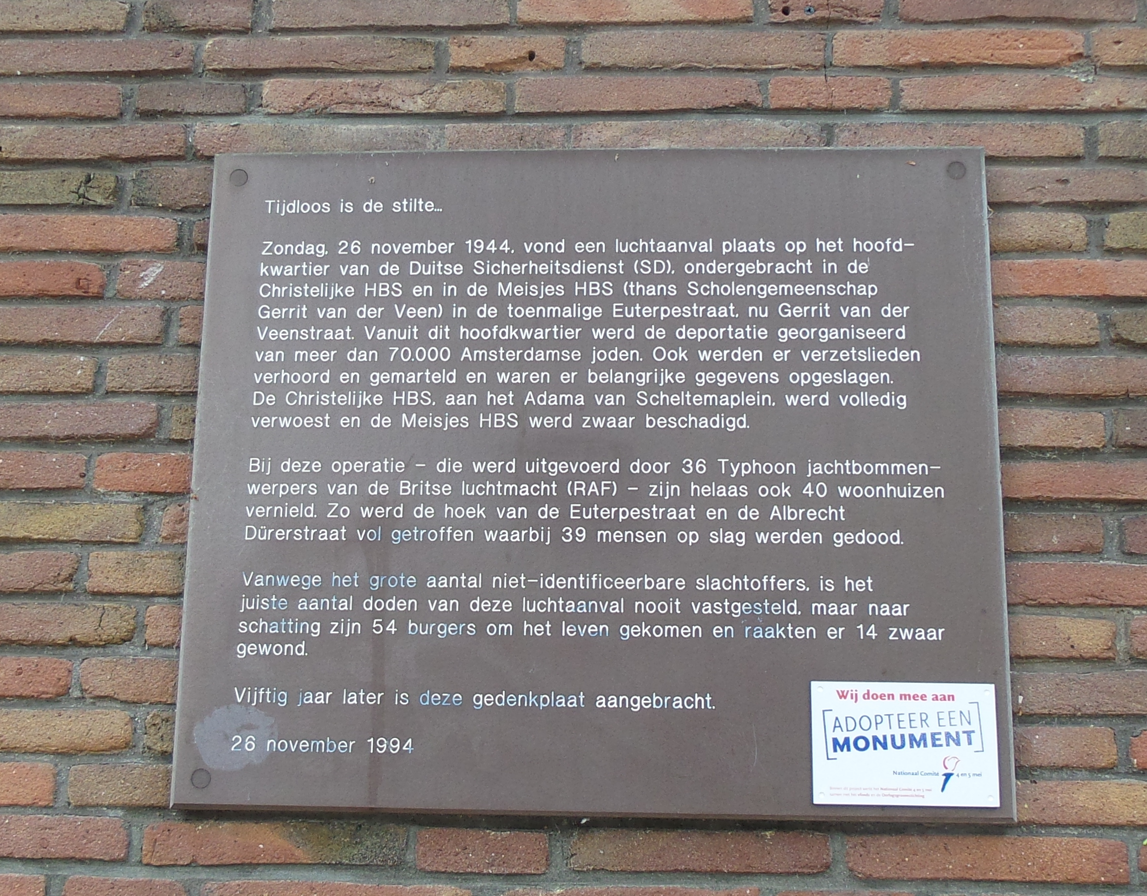 Monmument to the civilain vistims of a Royal Air Force attack on the German Security Service headquarters at Euterpestraat, Amsterdam, on 26 November 1944